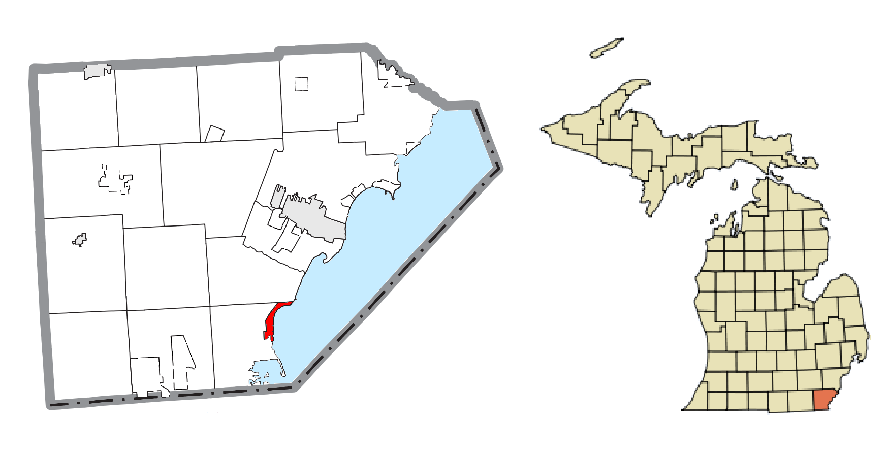 Luna Pier, MI